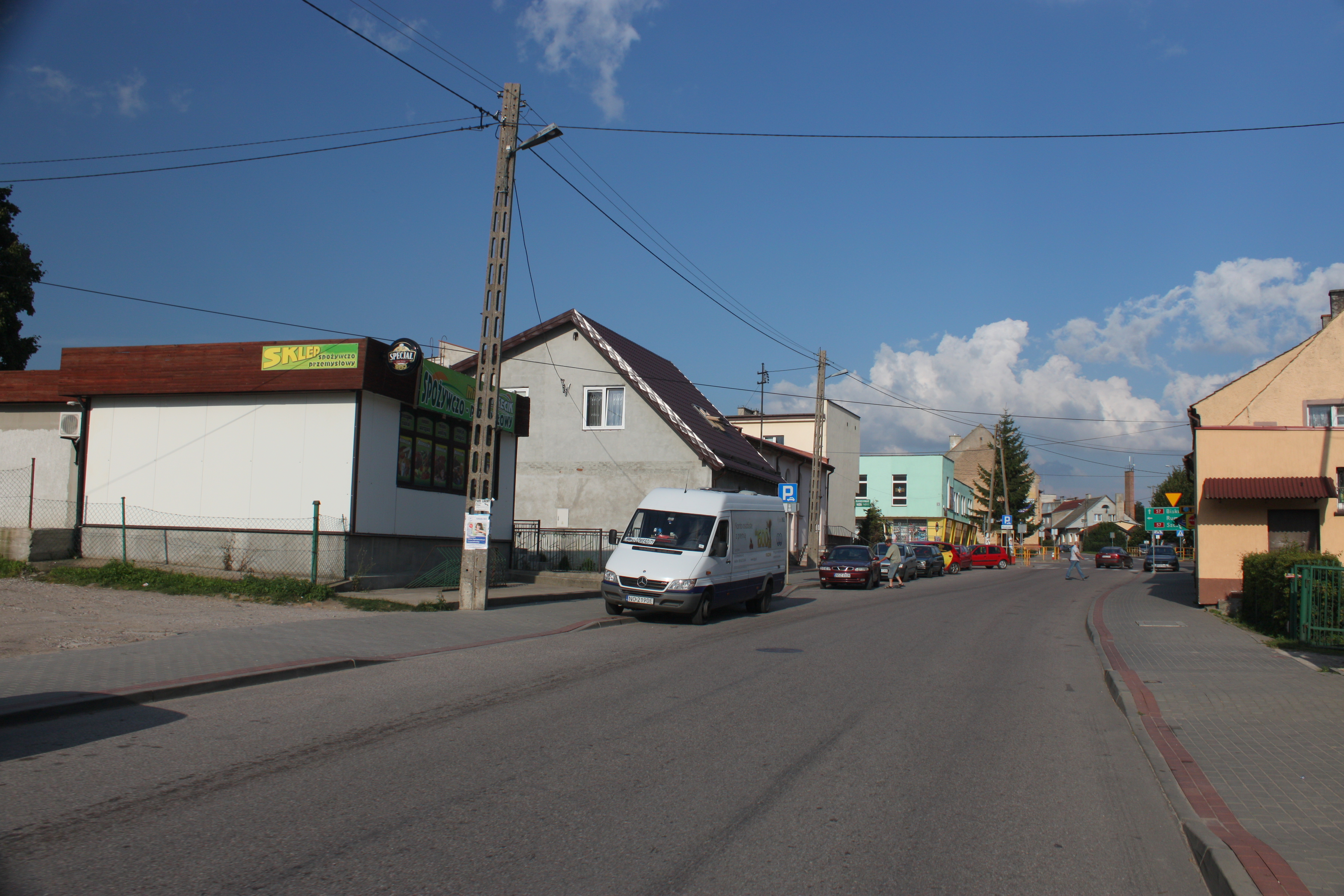 Road in Dźwierzuty.